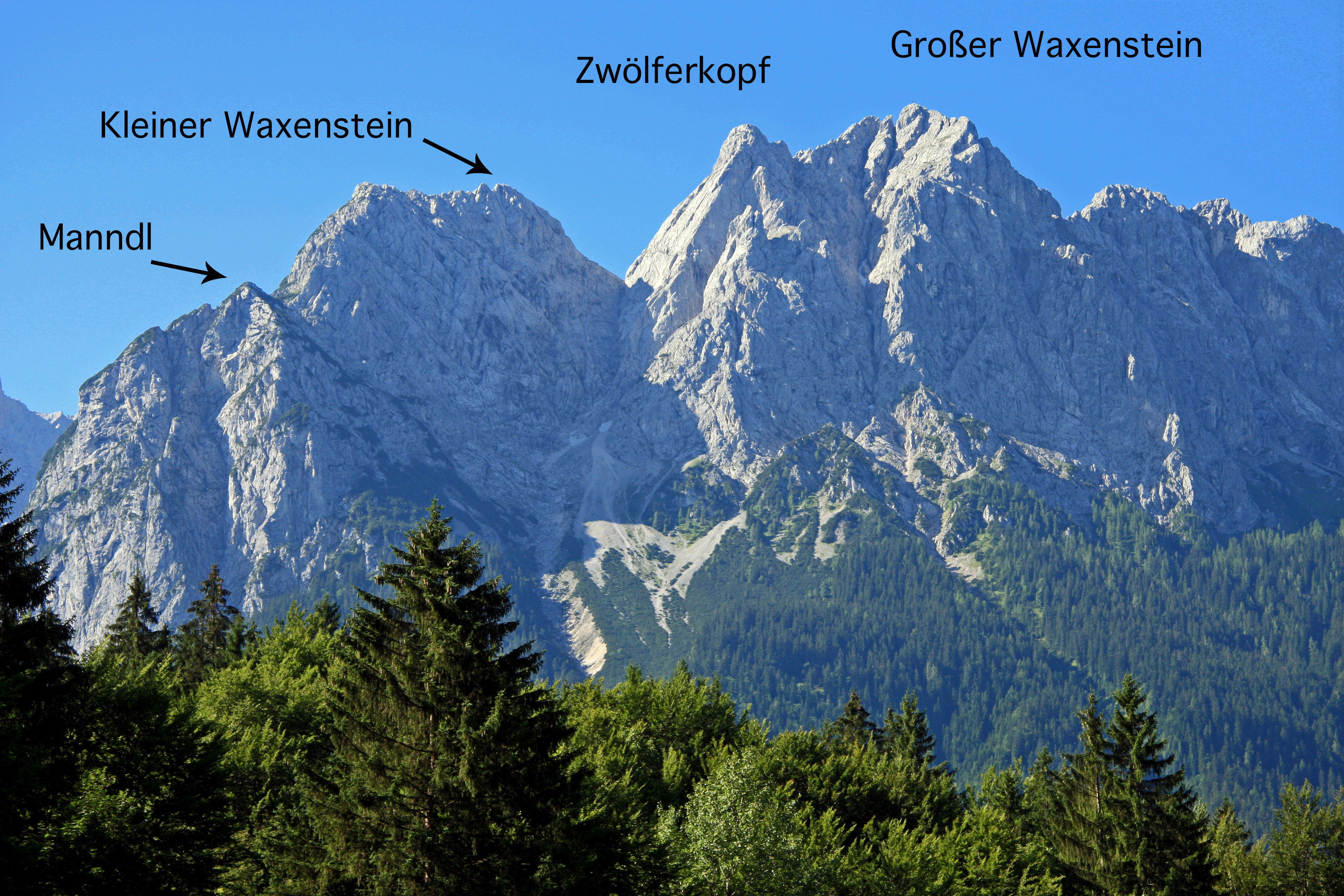 Waxenstein mountain range